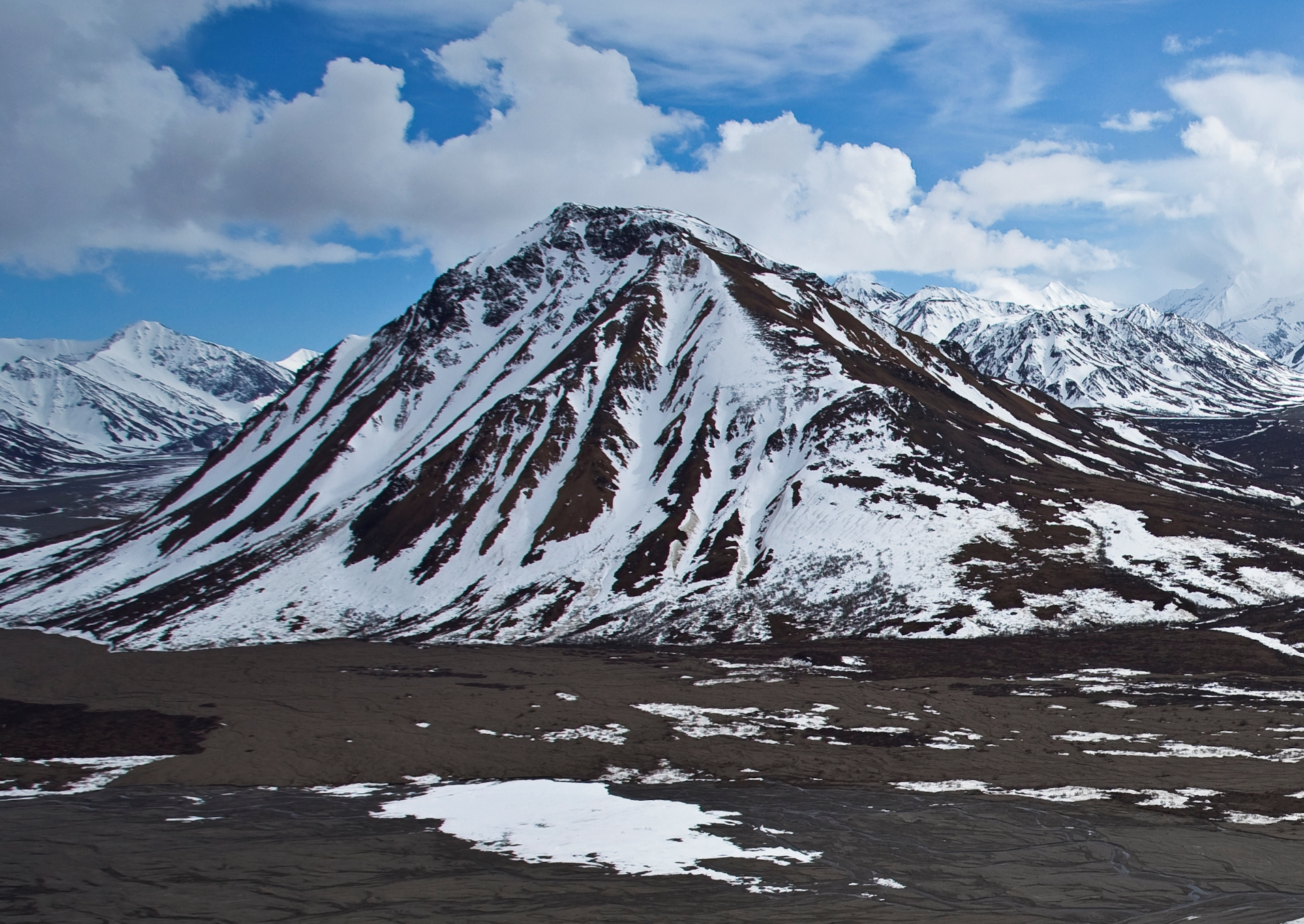 Divide Mountain seen from the north. Denali National Park